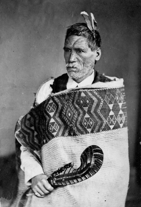 A photograph of Rewi Manga Maniapoto. Taken by Elizabeth Pulman in June 1879.